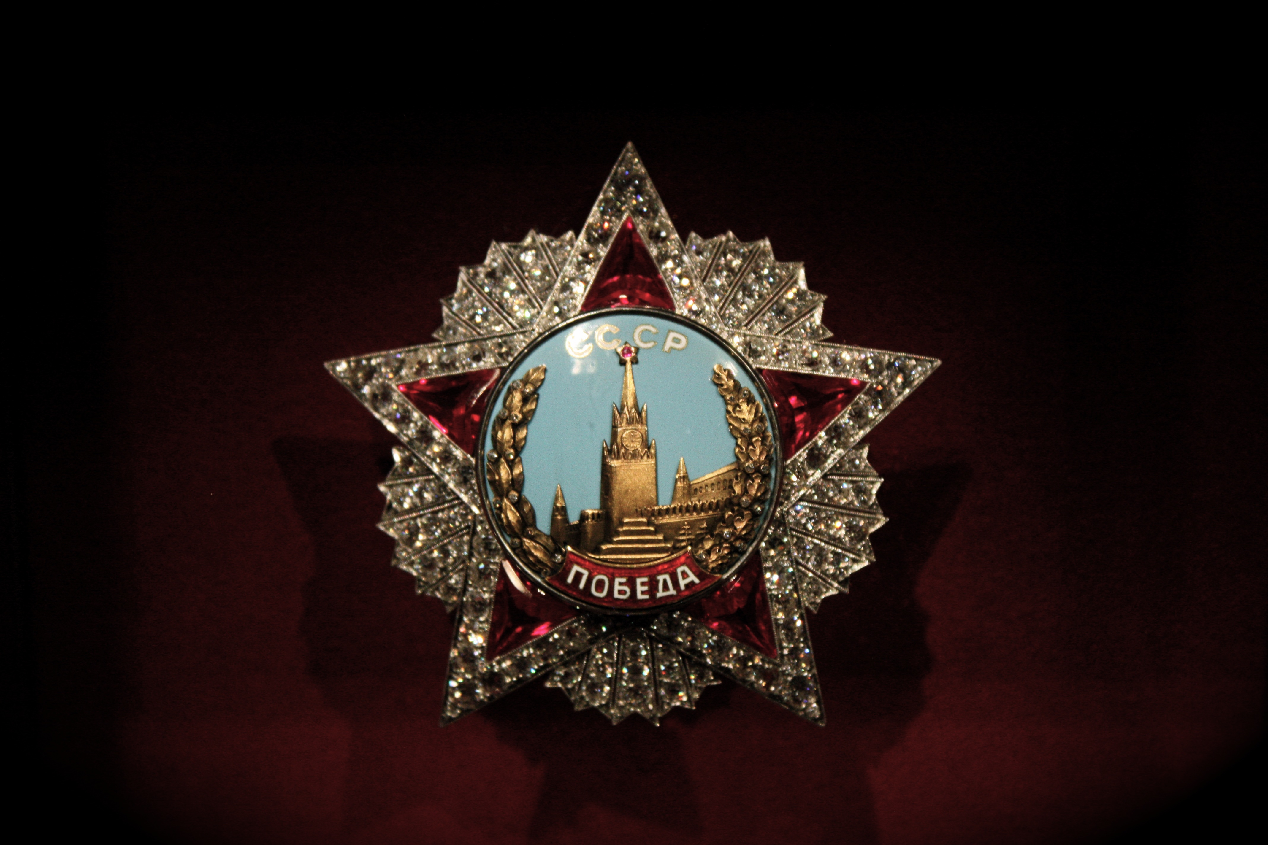 Order of Victory inside the National Archives in DC